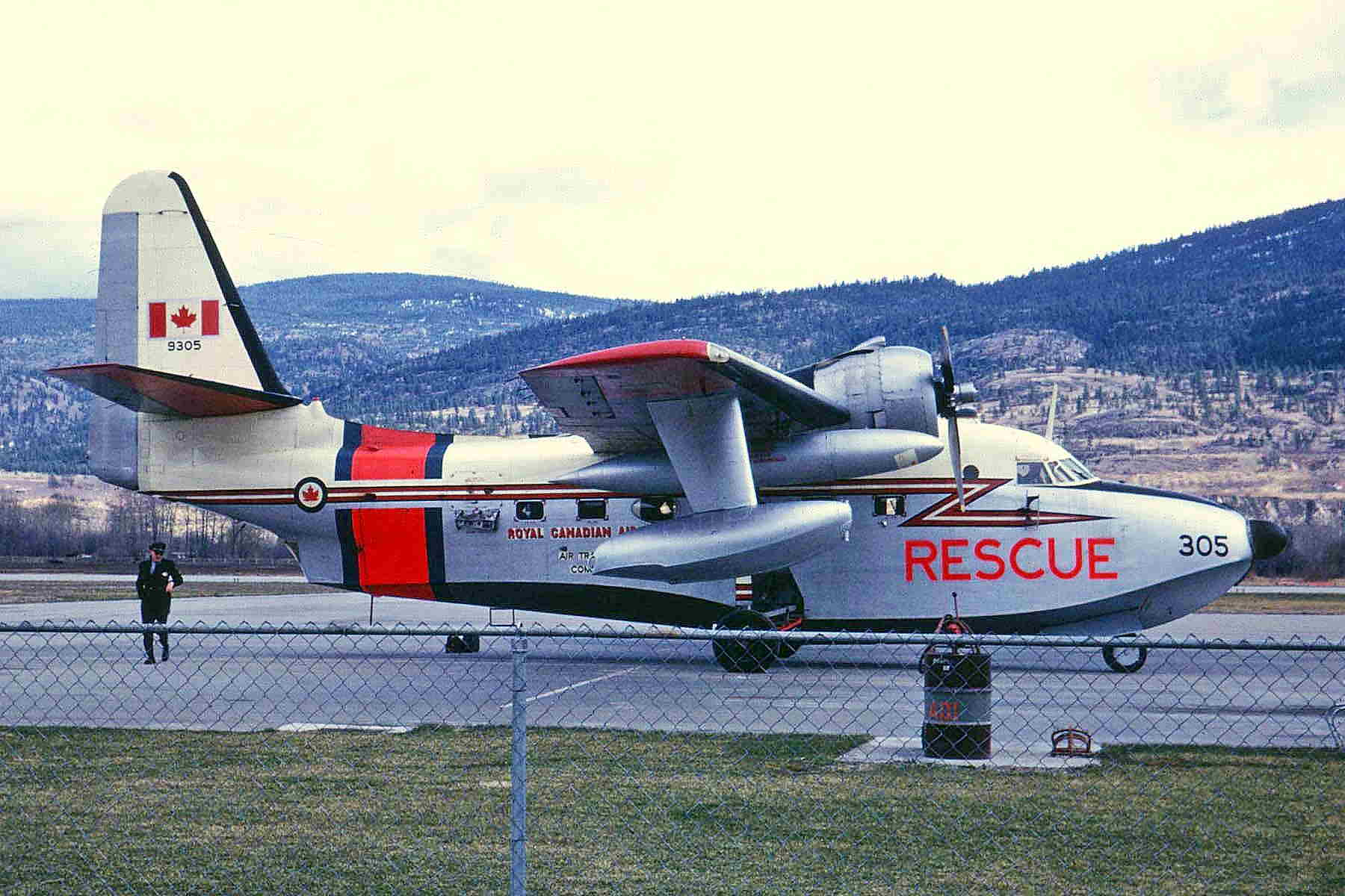 9305 Grumman S-16 Albatross RCAF YYF